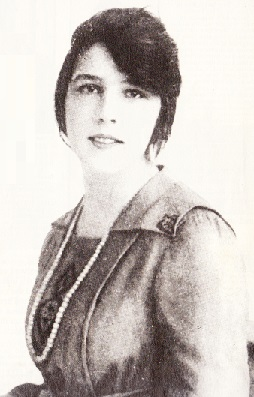 Image depicts one of the two (separate) Crumbles murders victims. Subject depicted was murdered in 1920.